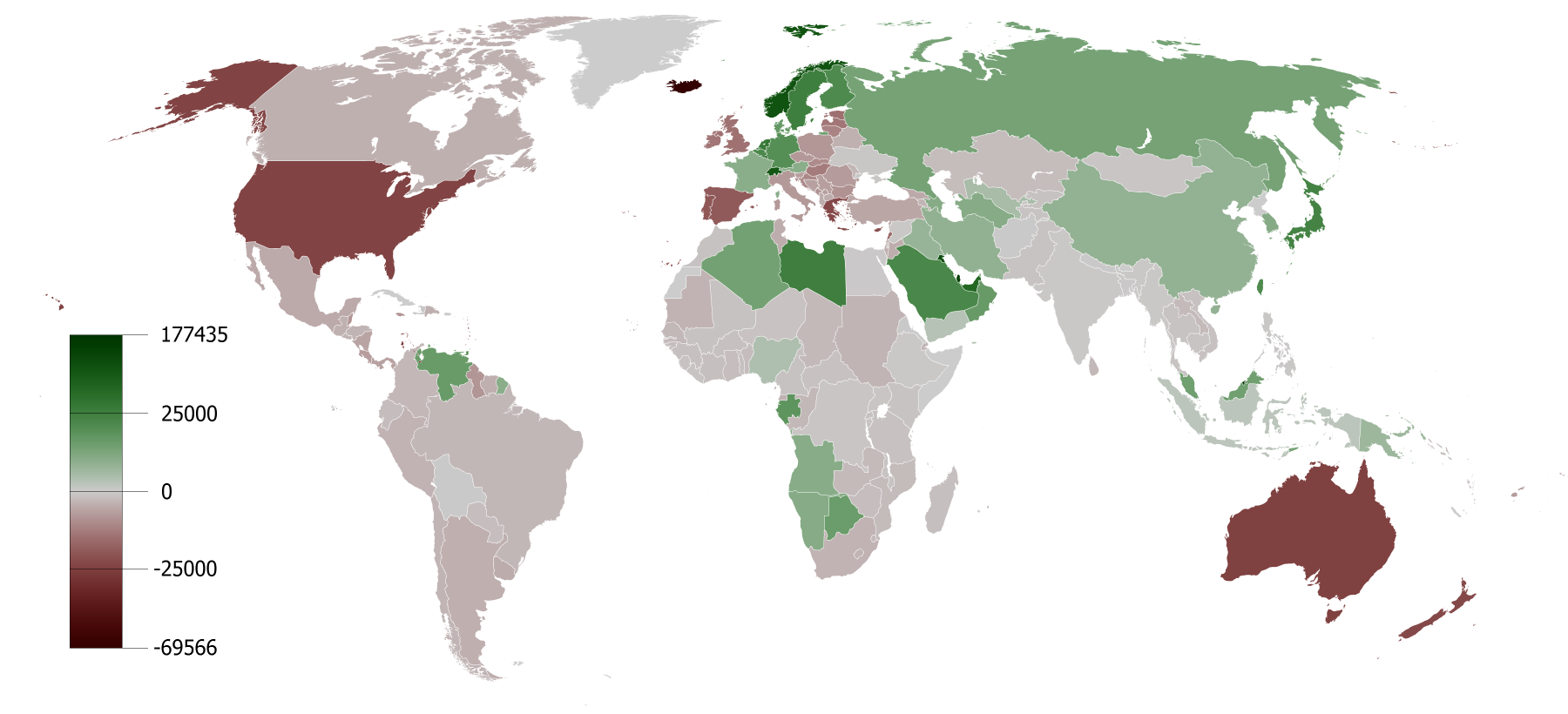 Cumulative Current Account Balance per capita from 1980 till 2008.